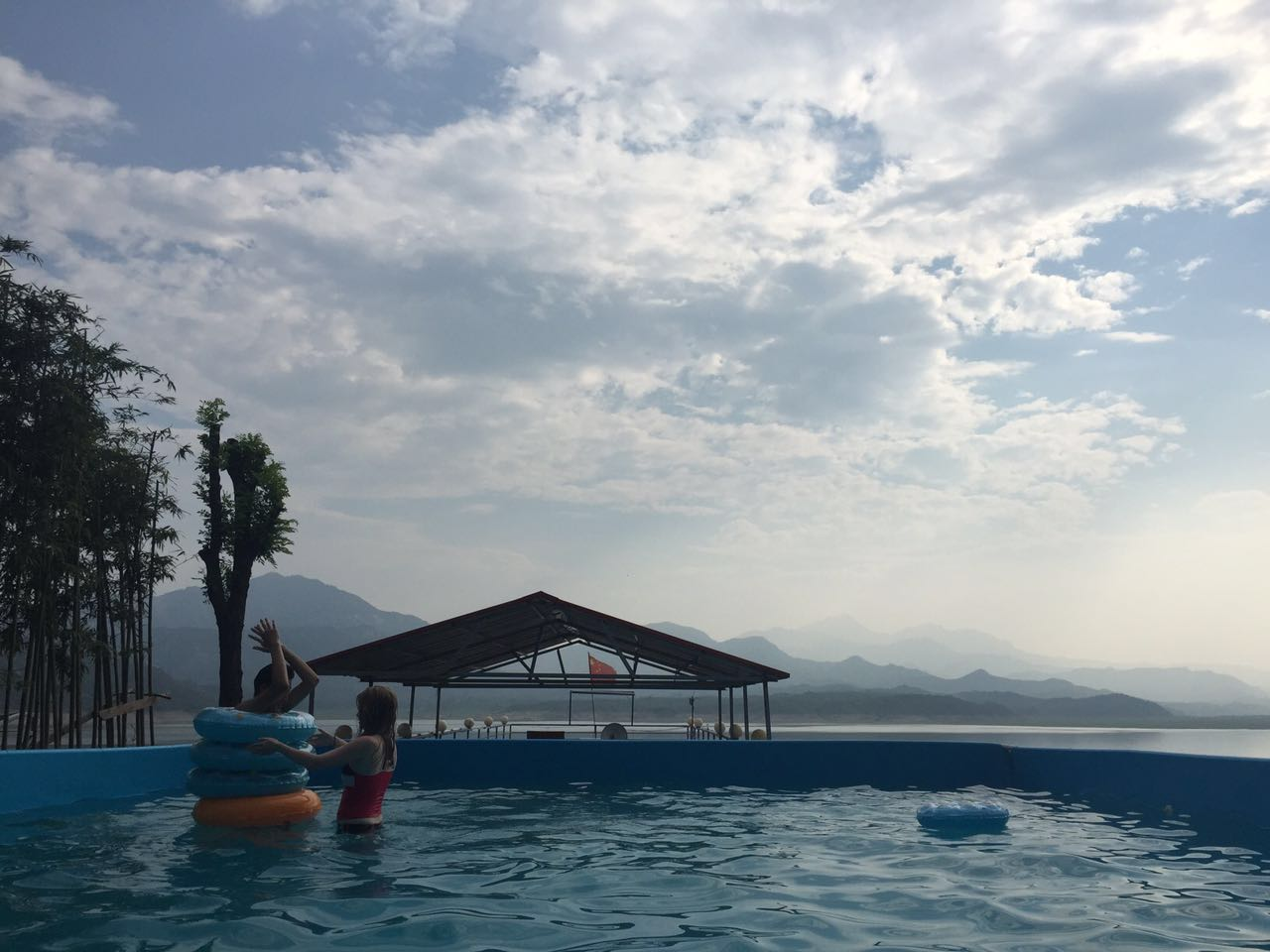 Hengshanlin Reservoir